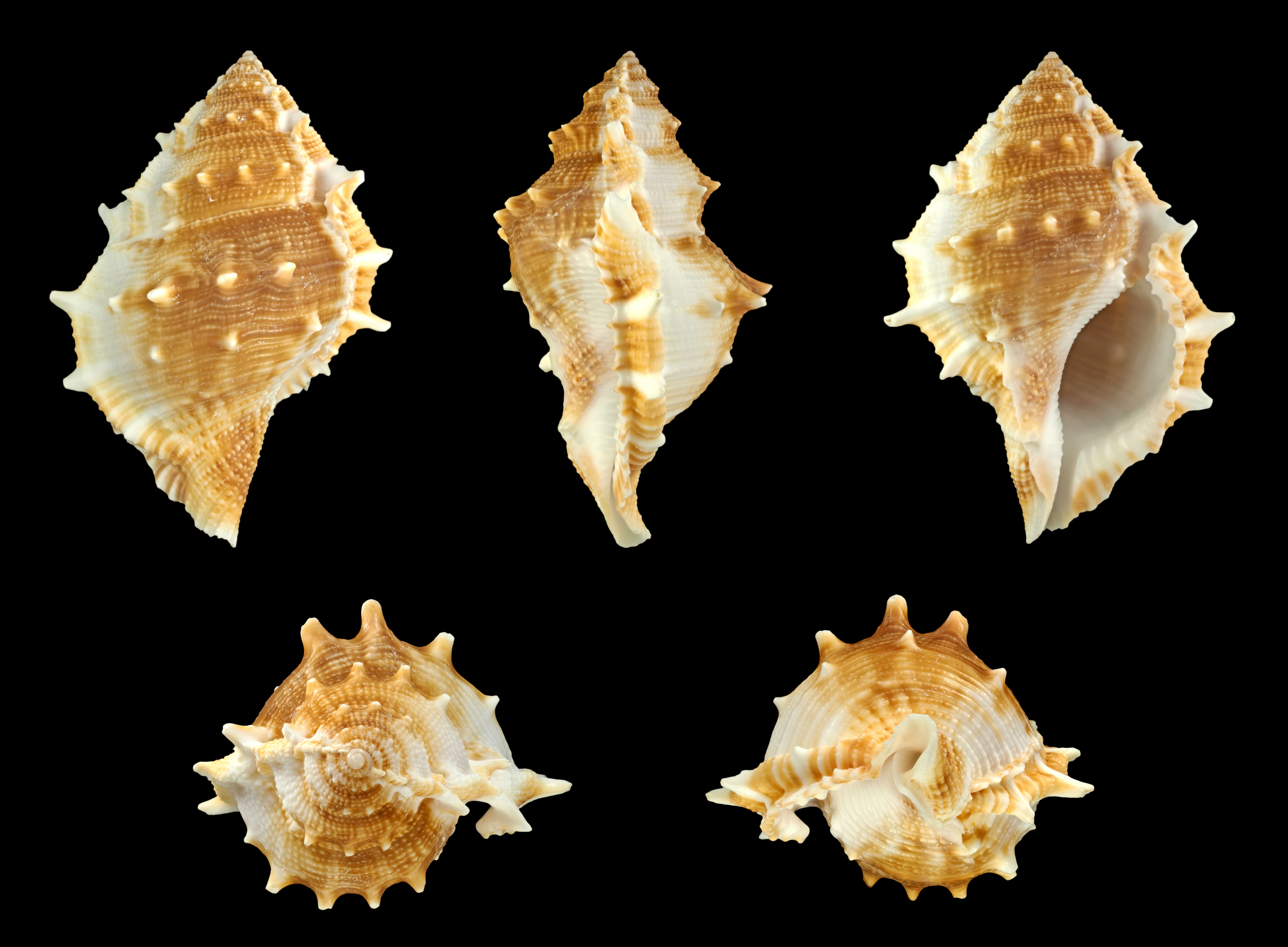 Bufonaria perelegans Beu, 1987, Near-elegant Frog Snail; Length 8.4 cm; Originating from the Philippines. Shell of own collection, therefore not geocoded.